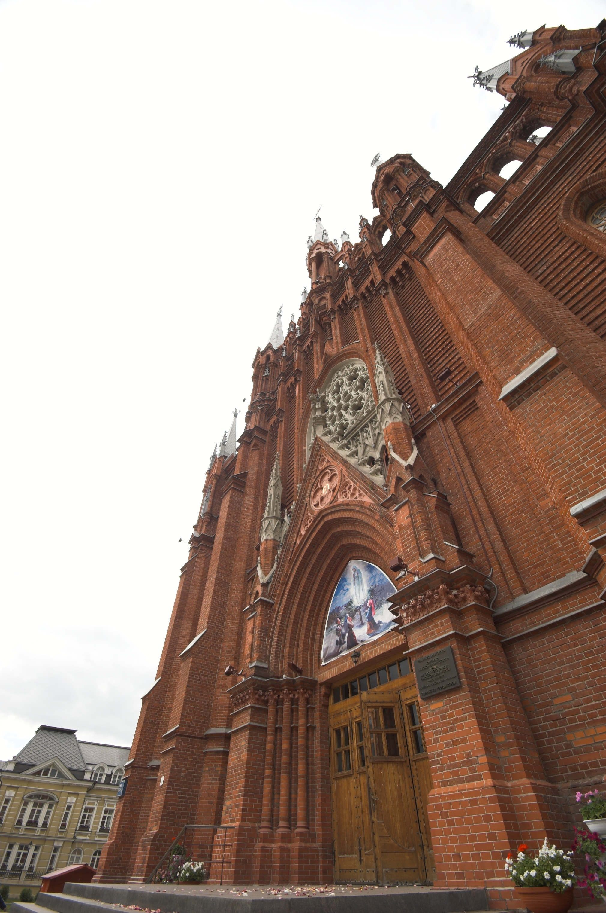 Gothic architecture: foto with tilted camera. Roman Catholic Church of Immaculate Conception, Moscow, Russia.